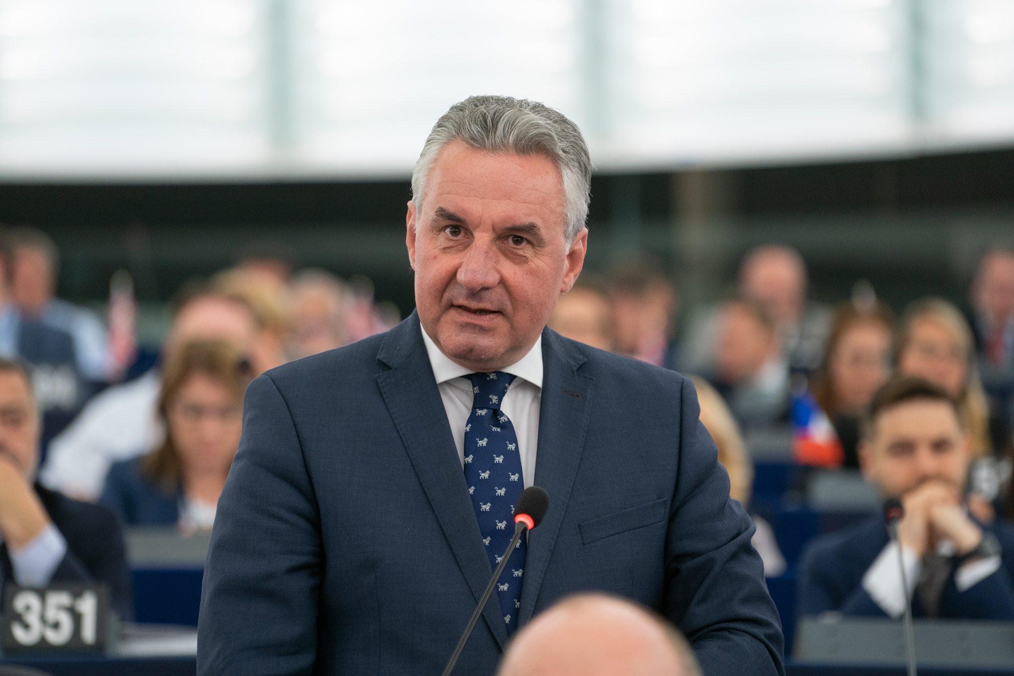 This photo is free to use under Creative Commons license CC-BY-4.0 and must be credited: "CC-BY-4.0: © European Union 2019 – Source: EP". No model release form if applicable. For bigger HR files please contact: webcom-flickr(AT)